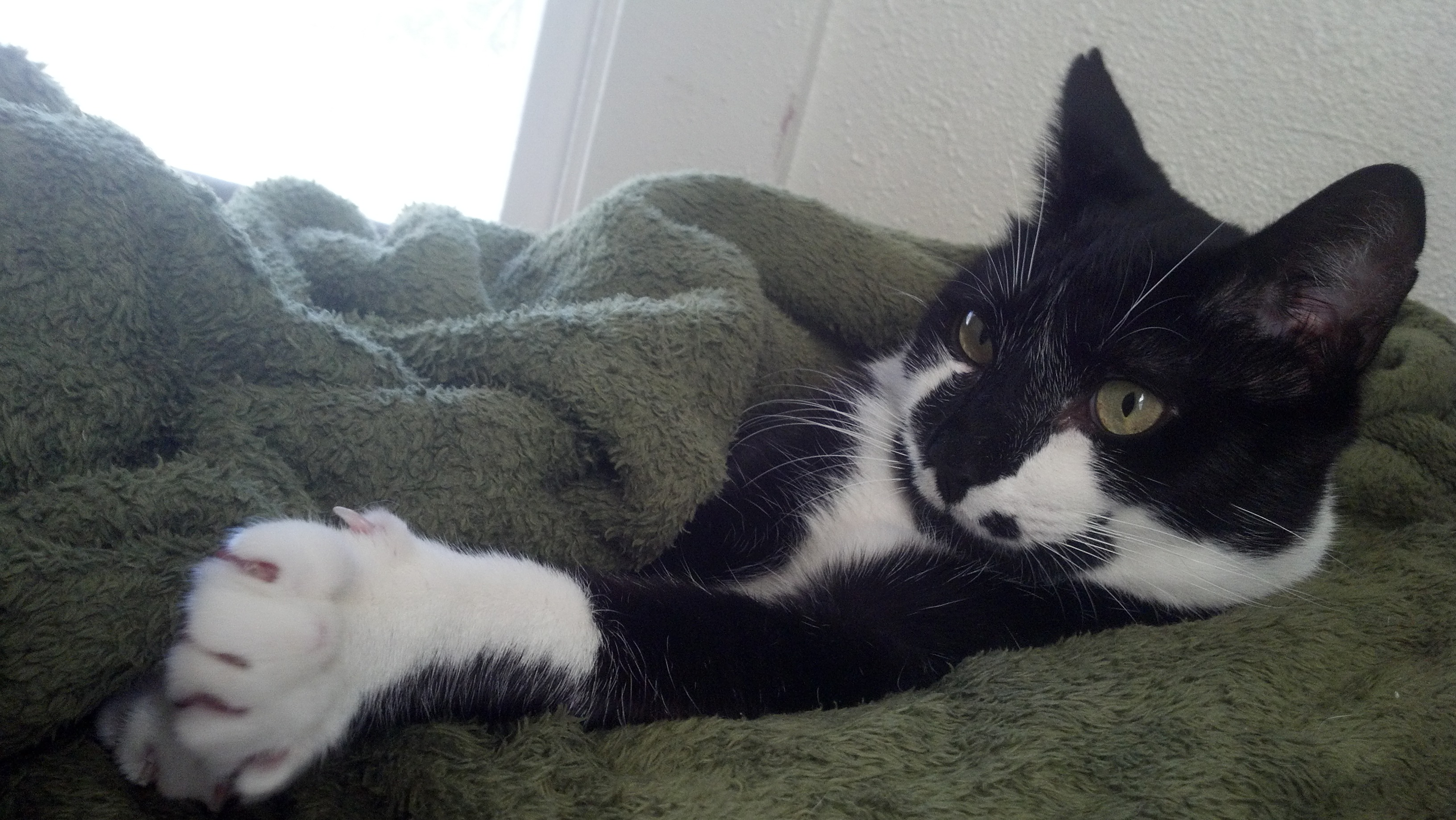 A depiction of the unique facial markings sometimes seen on bicolor cats